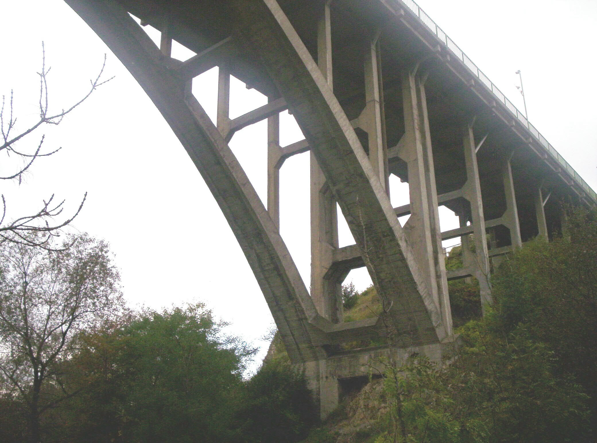 Description: The big arc of the Viaduct of Veszprém